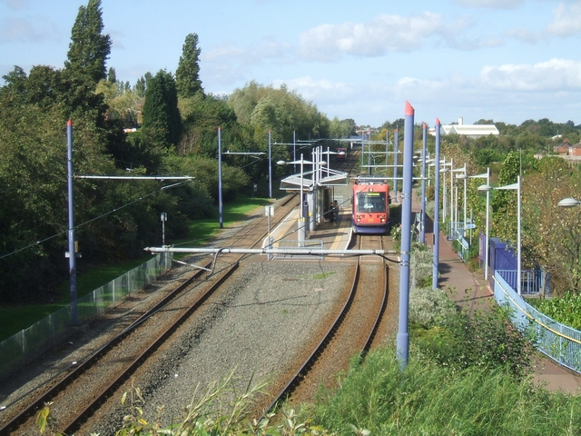 Bradley Lane Metro Station An island type station with a centrally located platform. The Birmingham bound track deviates around the platform.